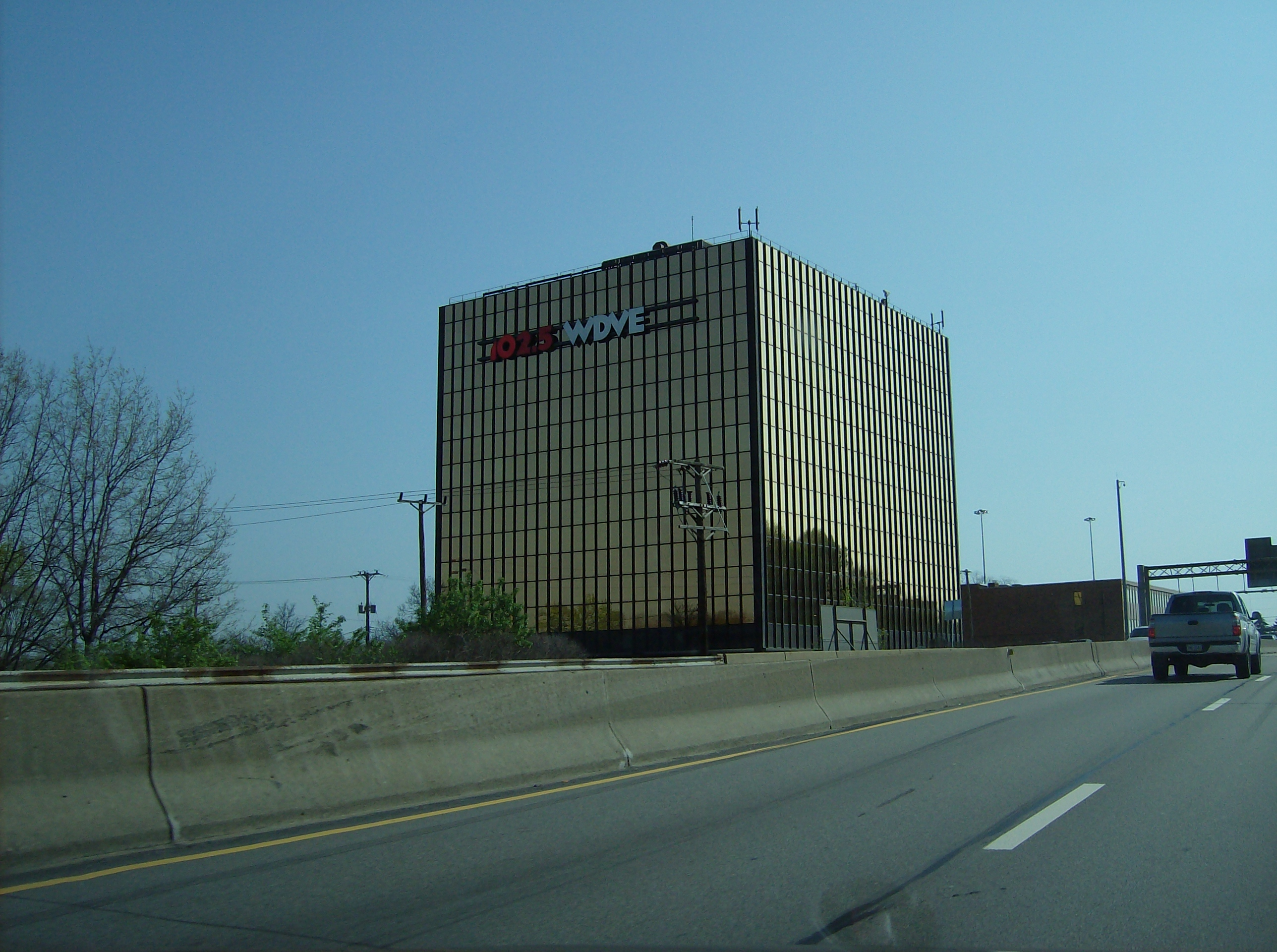 View of the studios of WDVE in Green Tree, Pennsylvania, United States. Picture taken from Interstate 376.